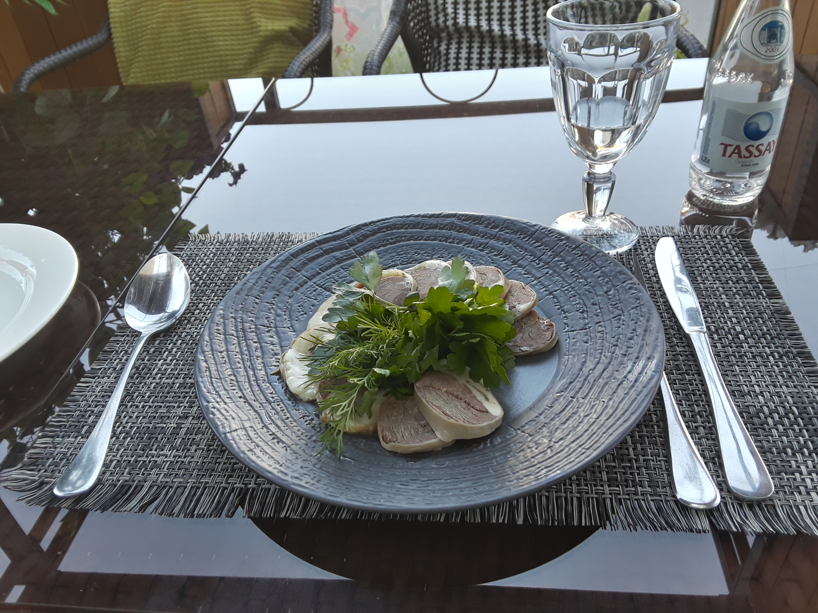 Cuisine of Kazakhstan at a restaurant in Nur-Sultan